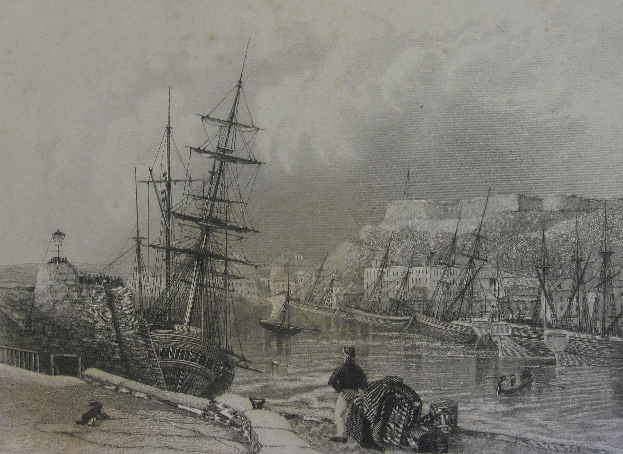 Illustration from Historical and Topographical Description of the Channel Islands (1840) by Robert Mudie - "St. Helier's, Jersey"